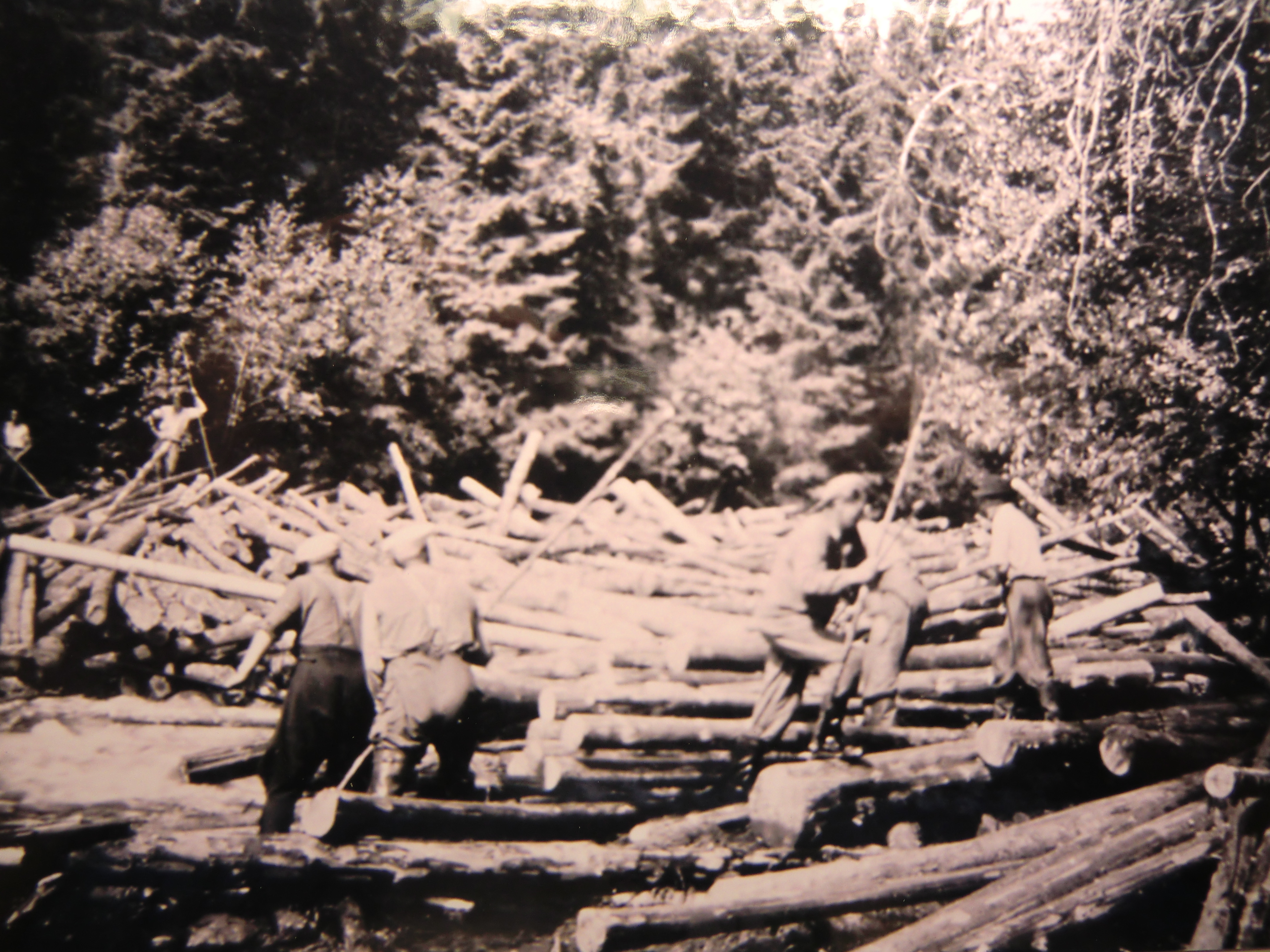 Log drivers in river Granån, Gräsmark, Sweden. June 1947.